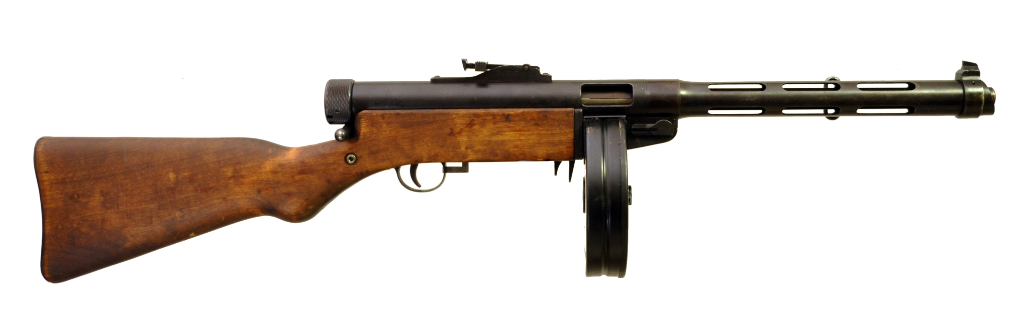 Finnish submachine gun M31.